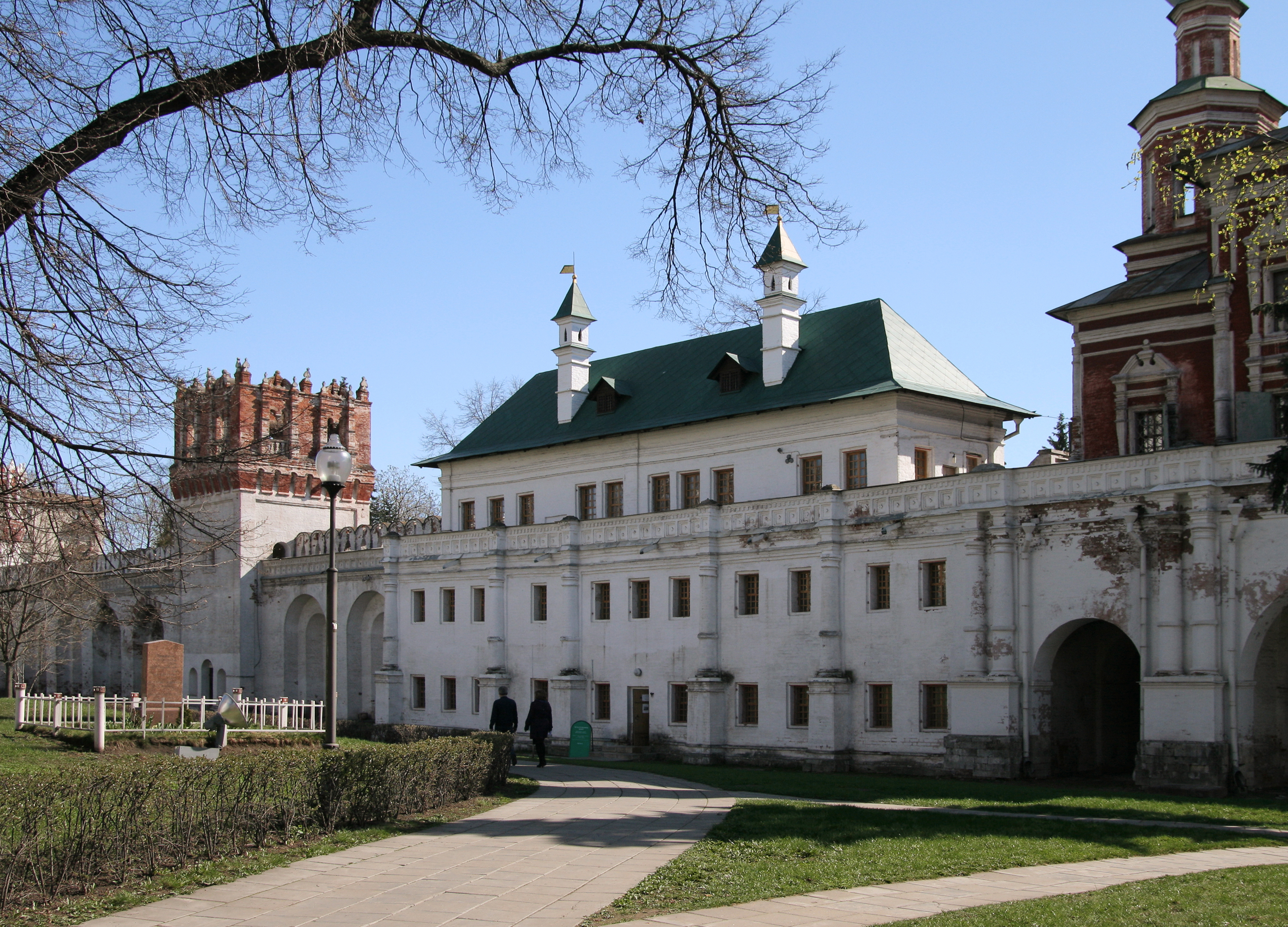 Chamber of Mary, Novodevichy Convent